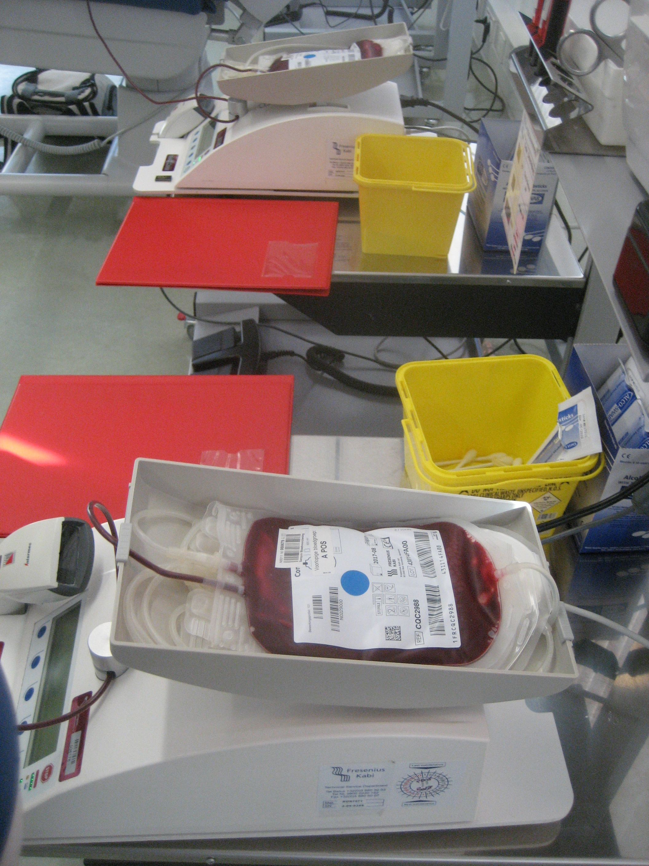 Blood donation equipment. Sanquin, Leiden (the Netherlands)